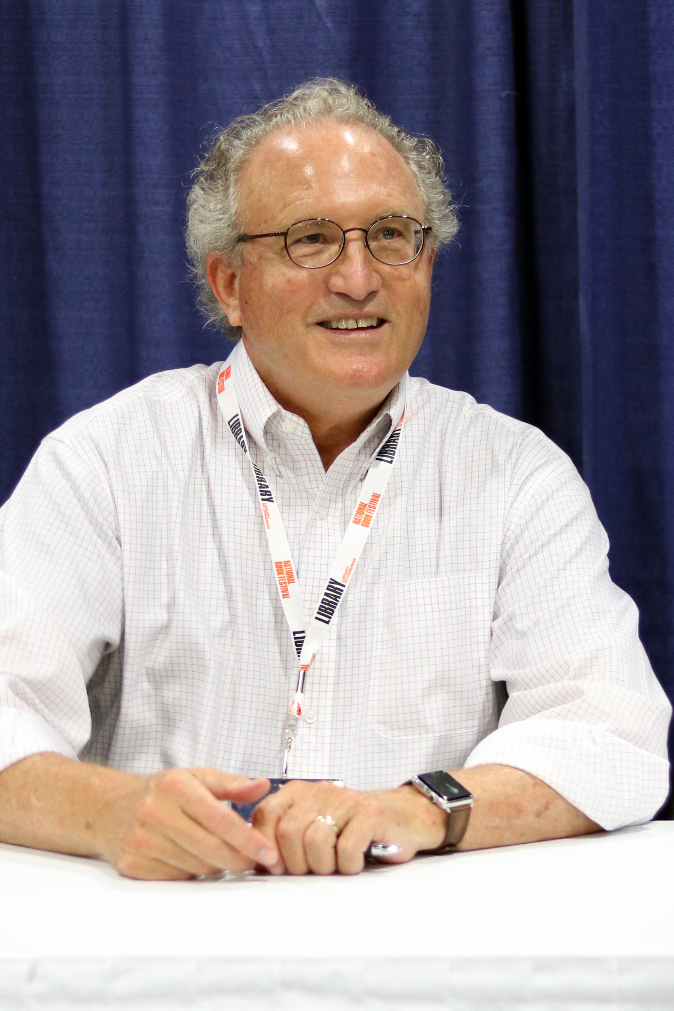 Mark Bowden at the 2018 U.S. National Book Festival